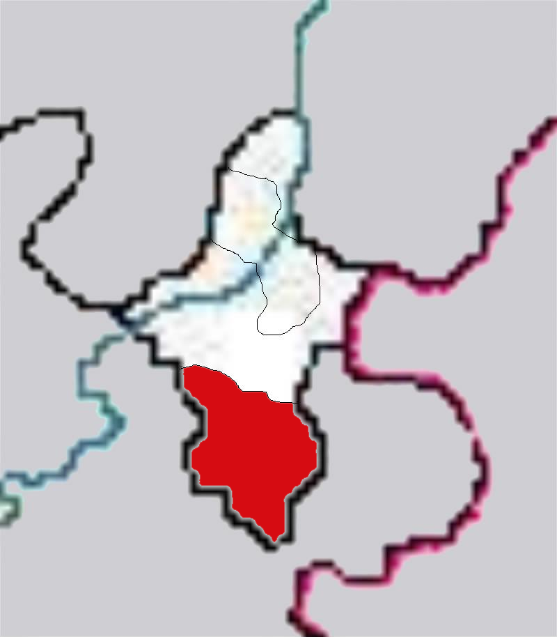 The territory of Guyuan prefecture-level city within the Ningxia AR